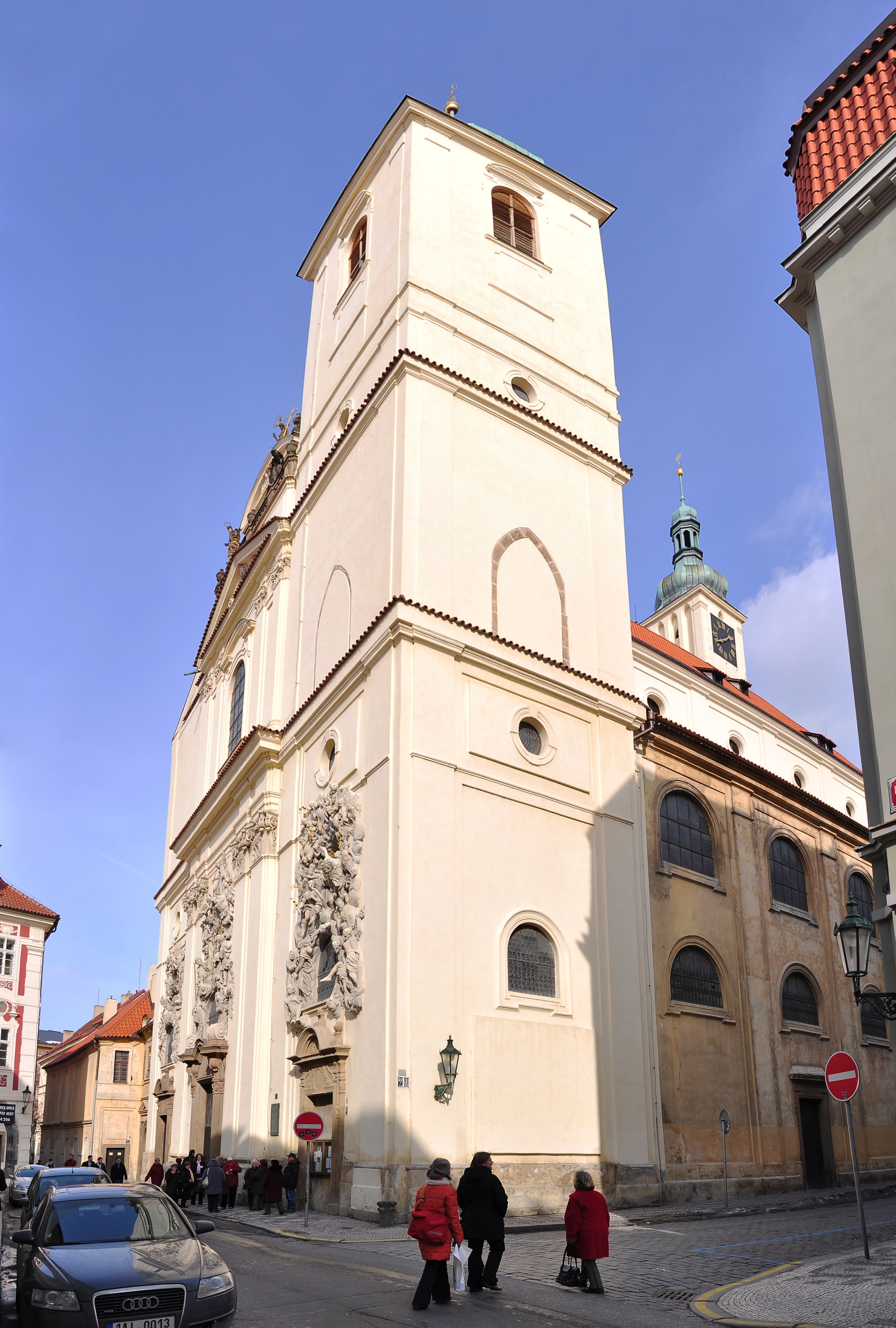 Church of st. James form southwest Česky: Kostel sv. Jakuba od jihozápadu.